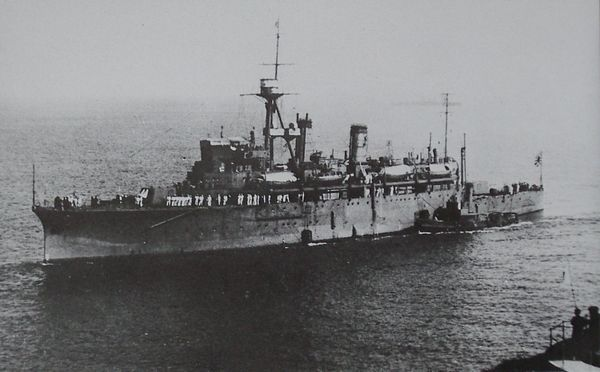 HIJMS Chōgei